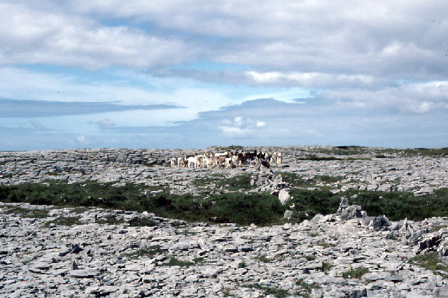 Feral goats - there are several herds in The Burren.